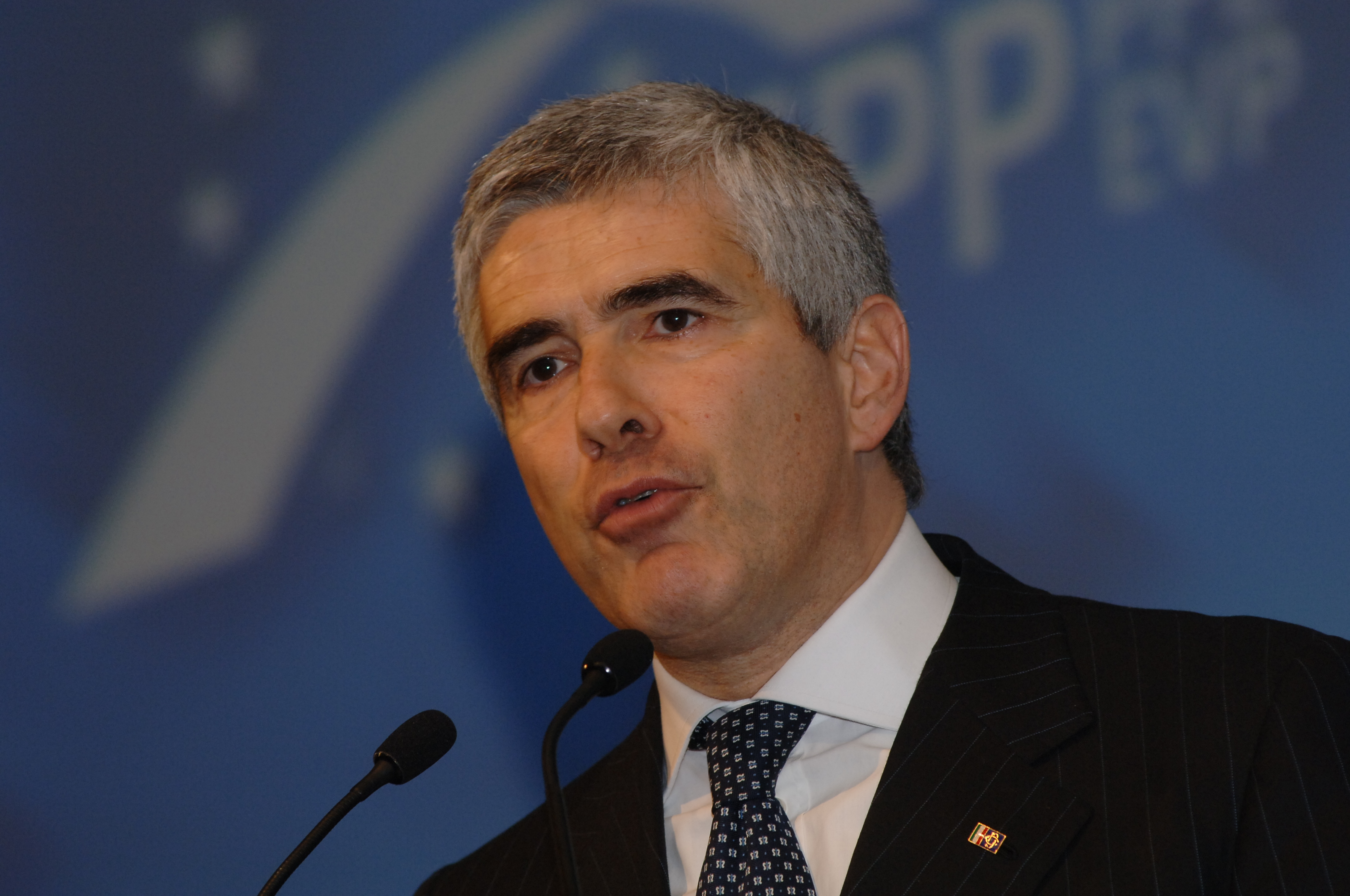 EPP Congress Rome 2006